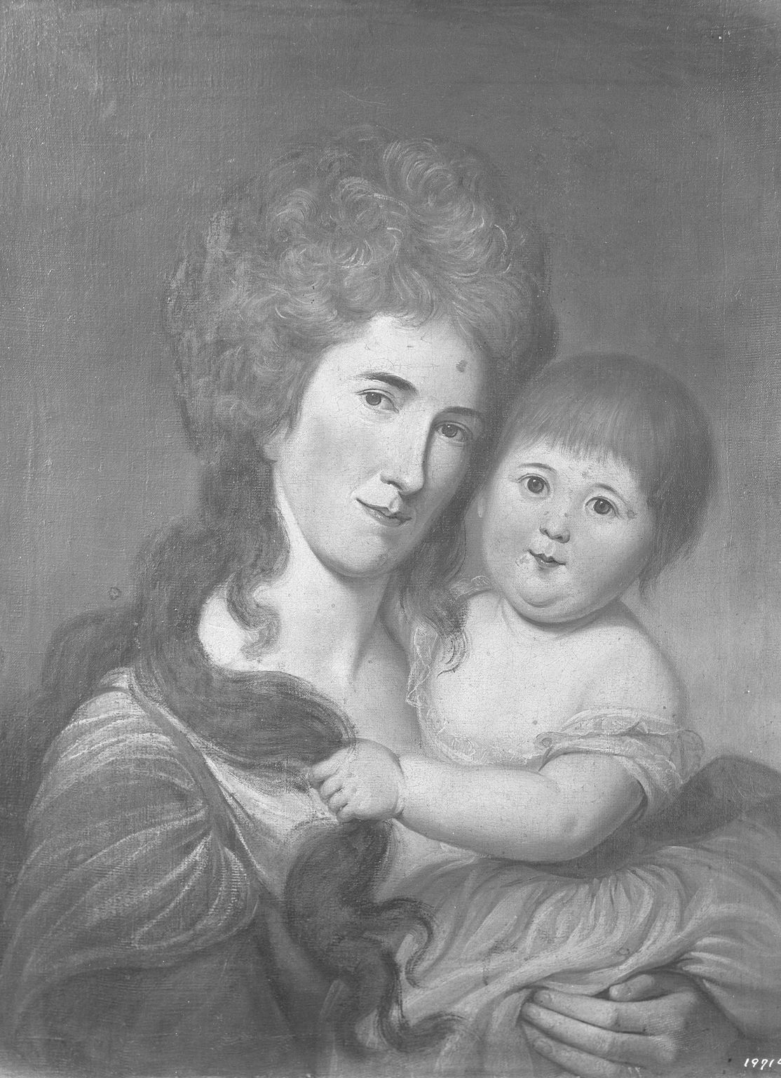 Title:Mrs. John Eager Howard (Peggy Oswald Chew) and Her Son, John Eager Howard II. Author/Artist:Peale, Charles Willson, 1741-1827 Creation Date:1789 26 1/4 x 20 1/2 in. oil on canvas.